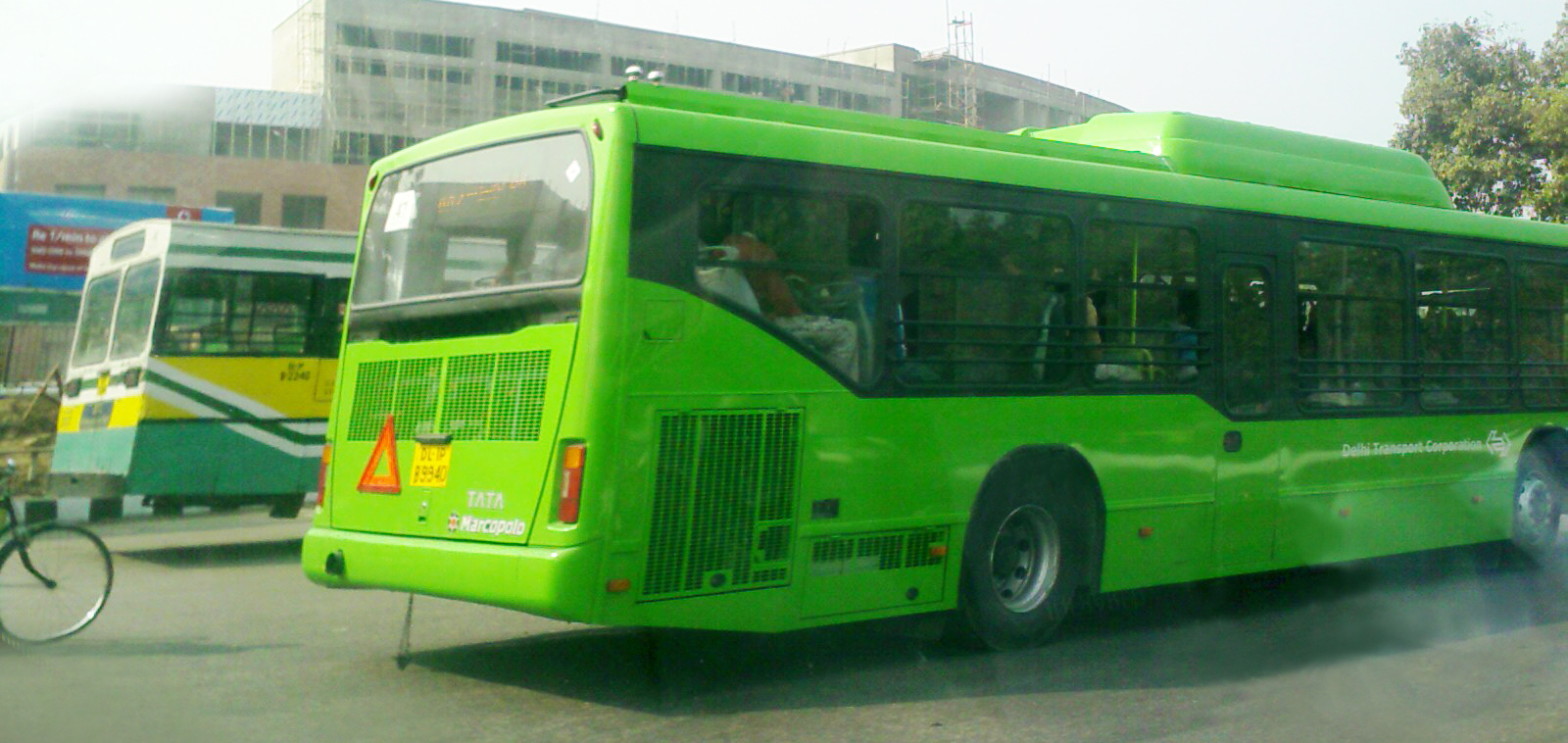 The bus at the back is one of the old DTC buses and the one in the front is the new green DTC bus. Major change isn't it.